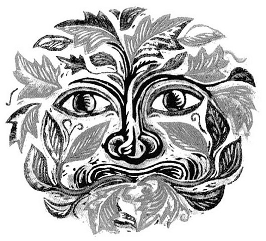 Lesovik by L. Bakst